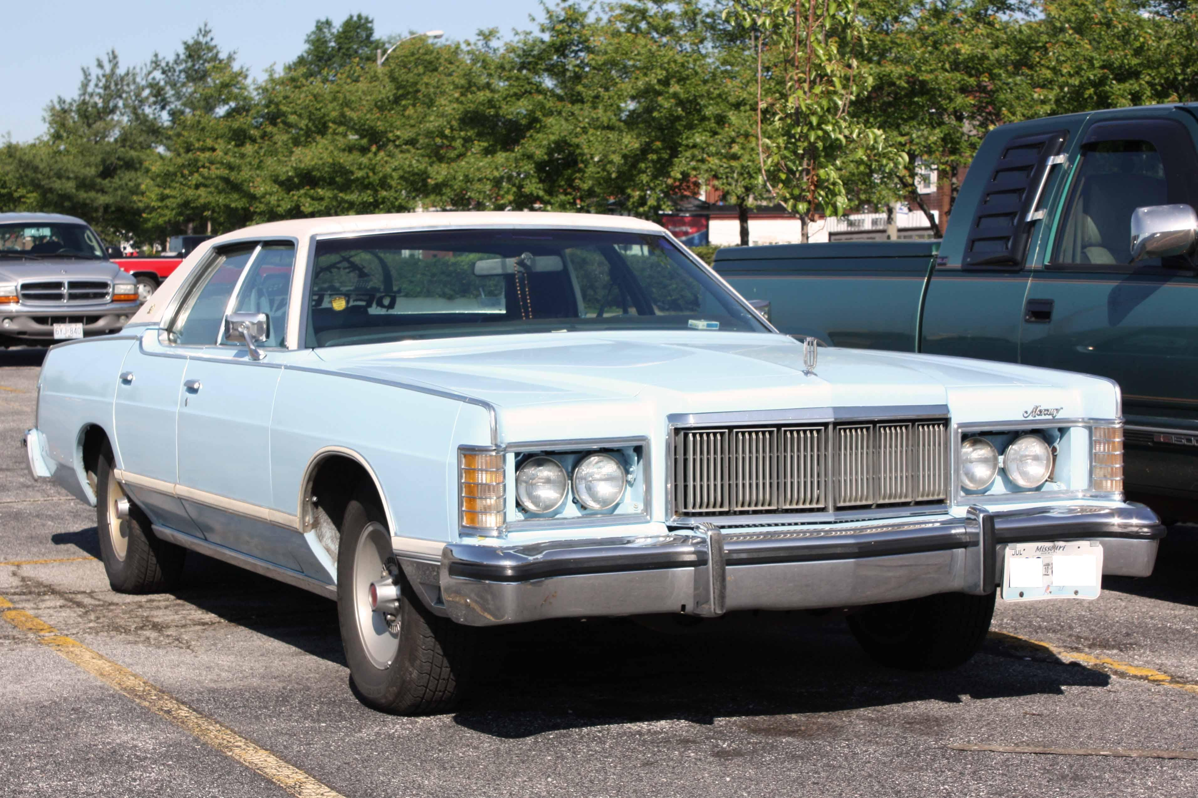 Mercury Grand Marquis front end.